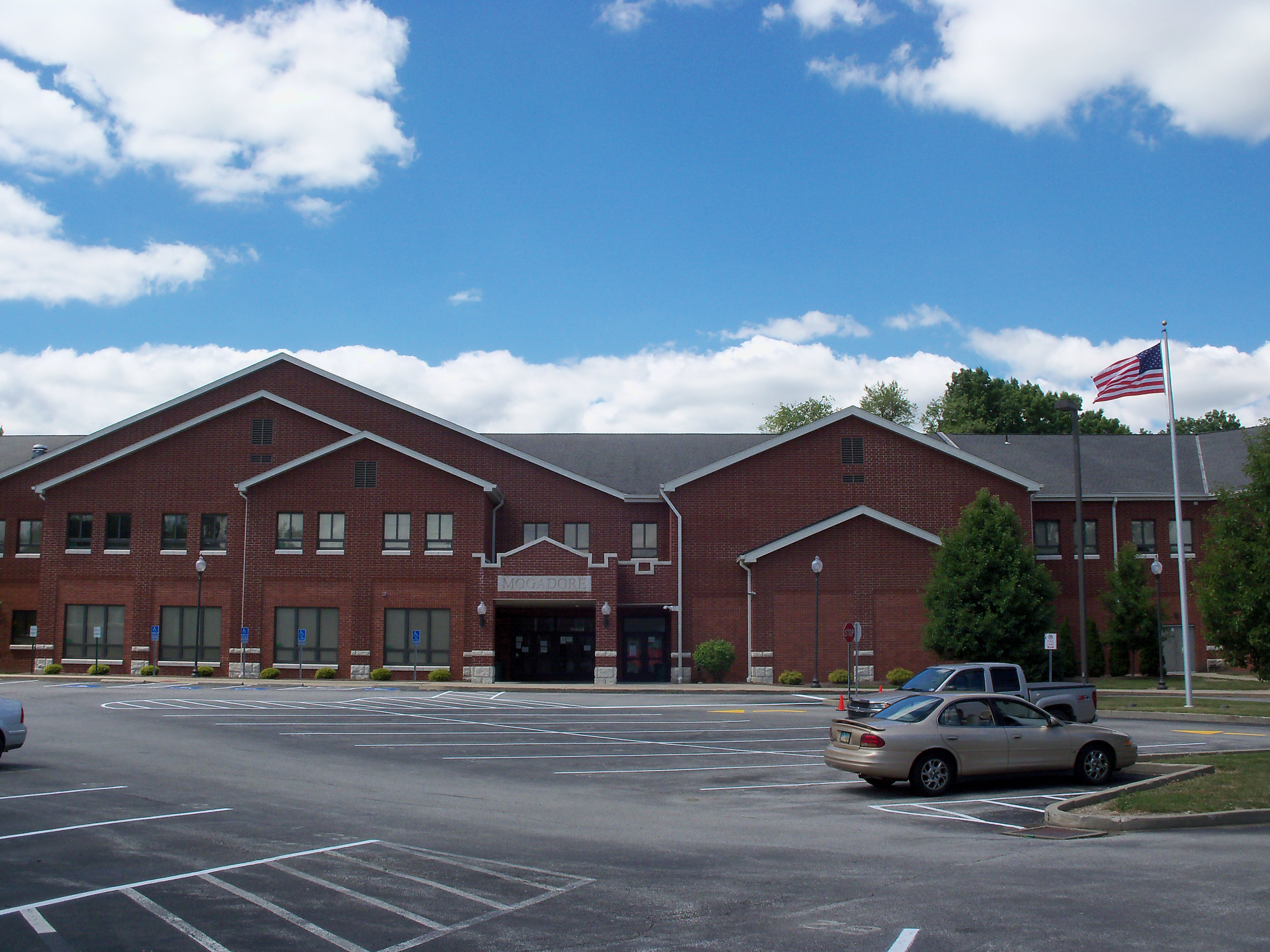 Mogadore High School is located in the Summit County, Ohio portion of Mogadore, Ohio